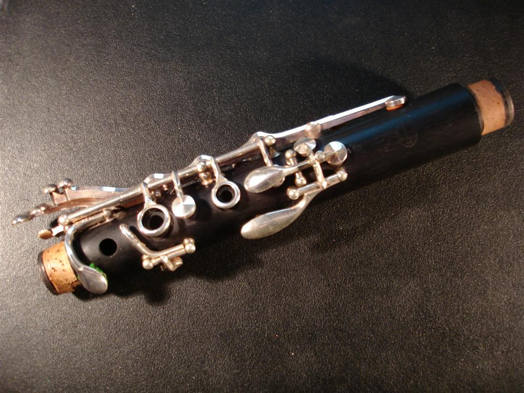 Buffet R13 Clarinet Upper Joint